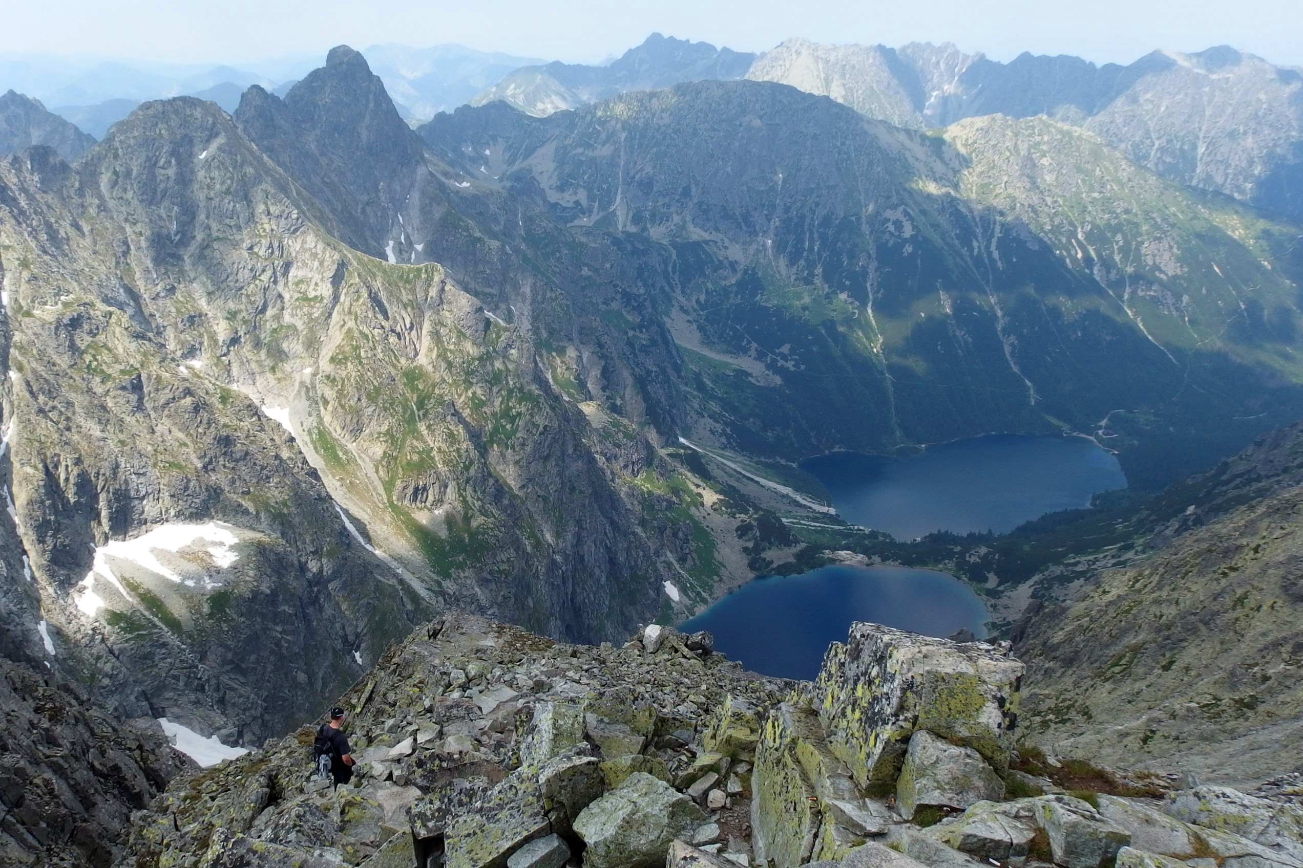 View from Rysy